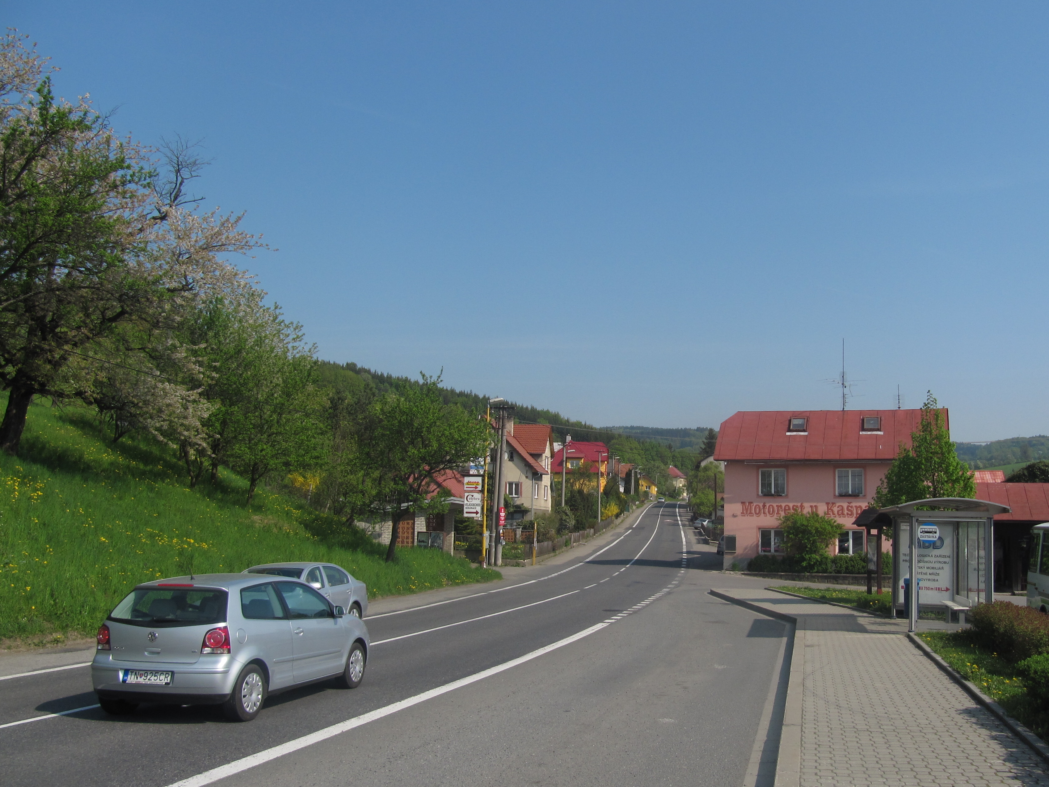 Jasenná in Zlín District, Czech Republic. Rest house.